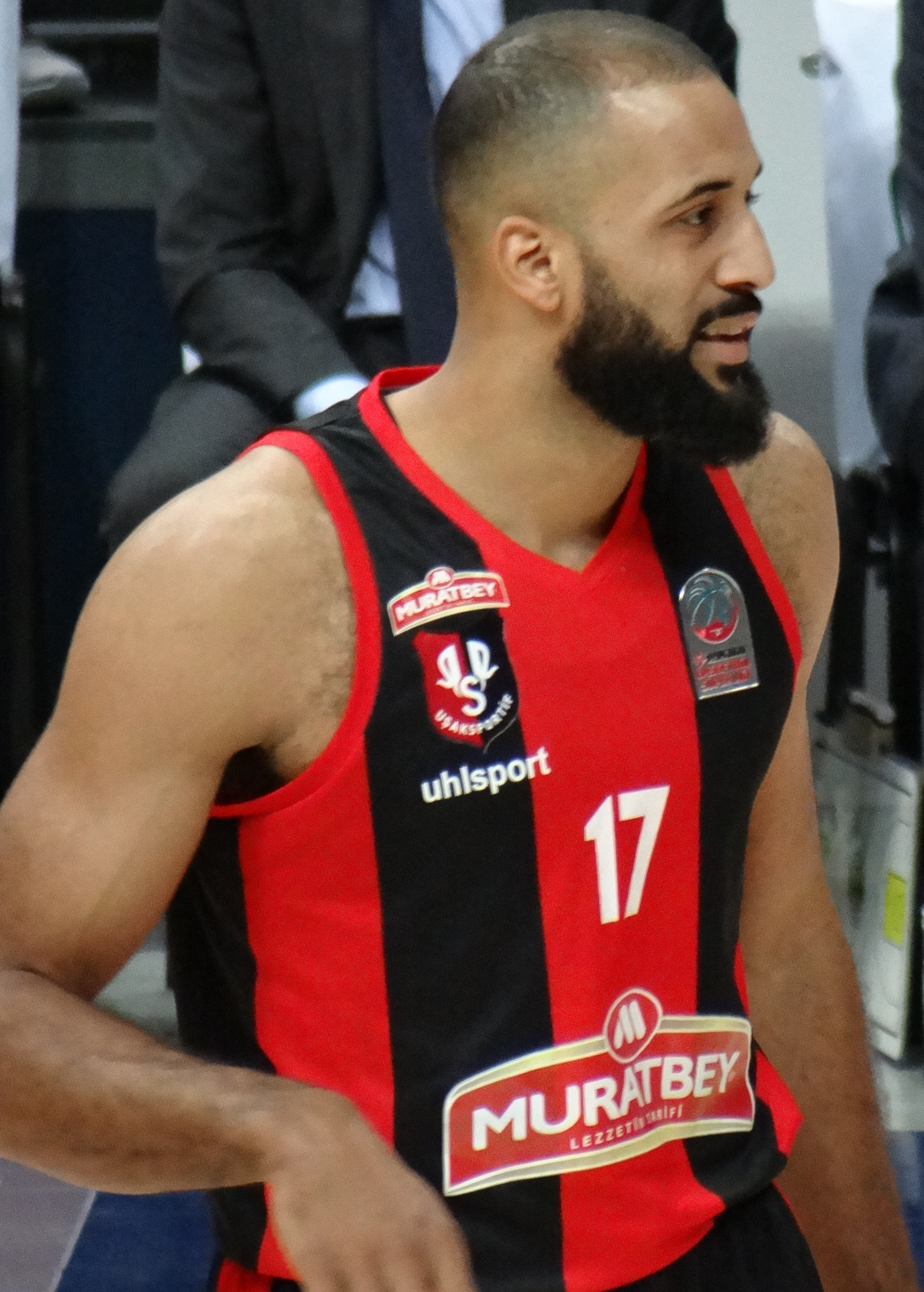 Jackie Carmichael 17 Uşak Sportif 20171224